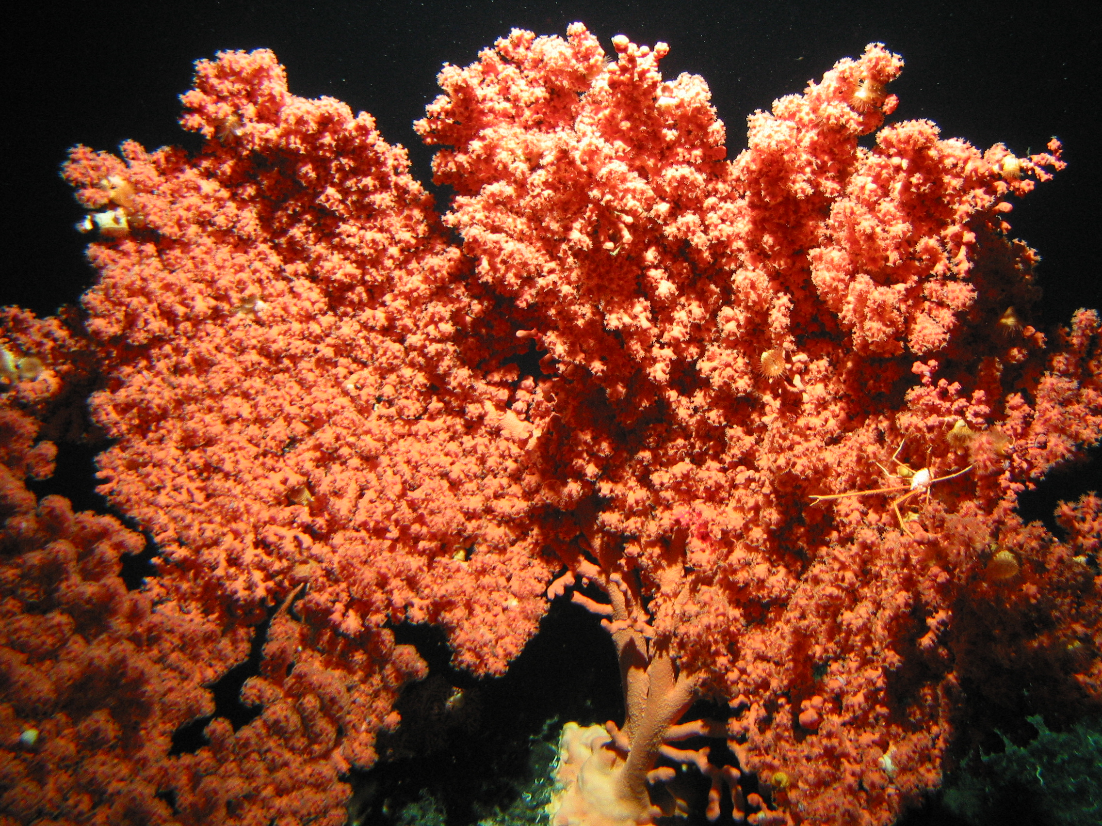 Gulf of Alaska Seamount Expedition. Large paragorgia coral with galatheid crabs on Pratt Seamount at 800 meters depth. Pacific Ocean, Gulf of Alaska. 2004.